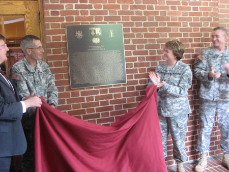 Walter Reed Army Medical Center Brigade commander, Colonel Gordon Ray Roberts (second from left, himself a Medal of Honor recipient during the Vietnam War), and North Atlantic Regional Medical Command and Walter Reed Army Medical Center commanding general, Major General Carla Hawley-Bowland (right), unveil the plaque officially renaming the Walter Reed Guest House Doss Memorial Hall in honor of World War II Medal of Honor recipient Desmond Doss. Doss Memorial Hall has 32 rooms for recovering wounded warriors and their family members.